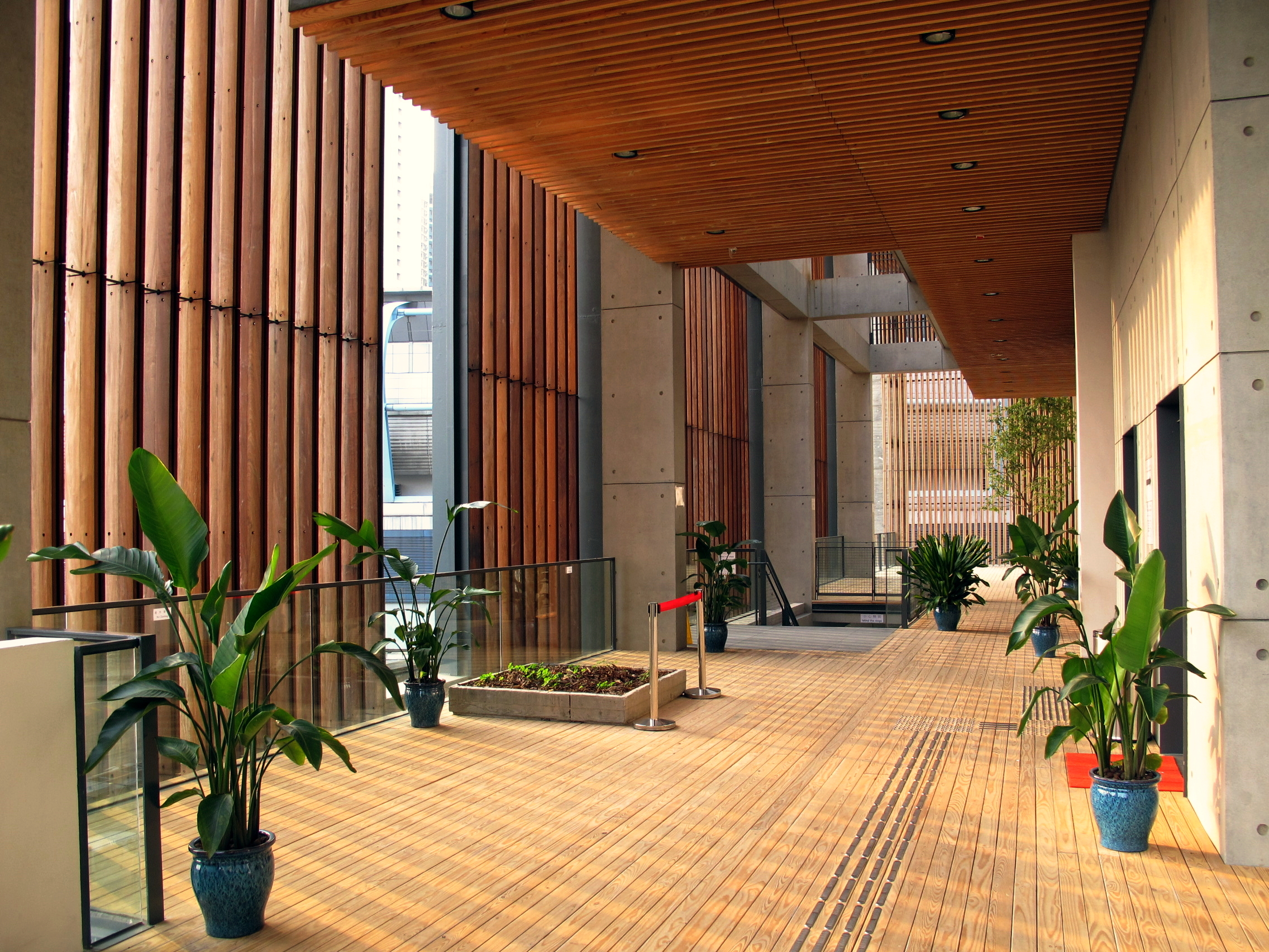 Ping Shan Tin Shui Wai Cultural and Leisure Building